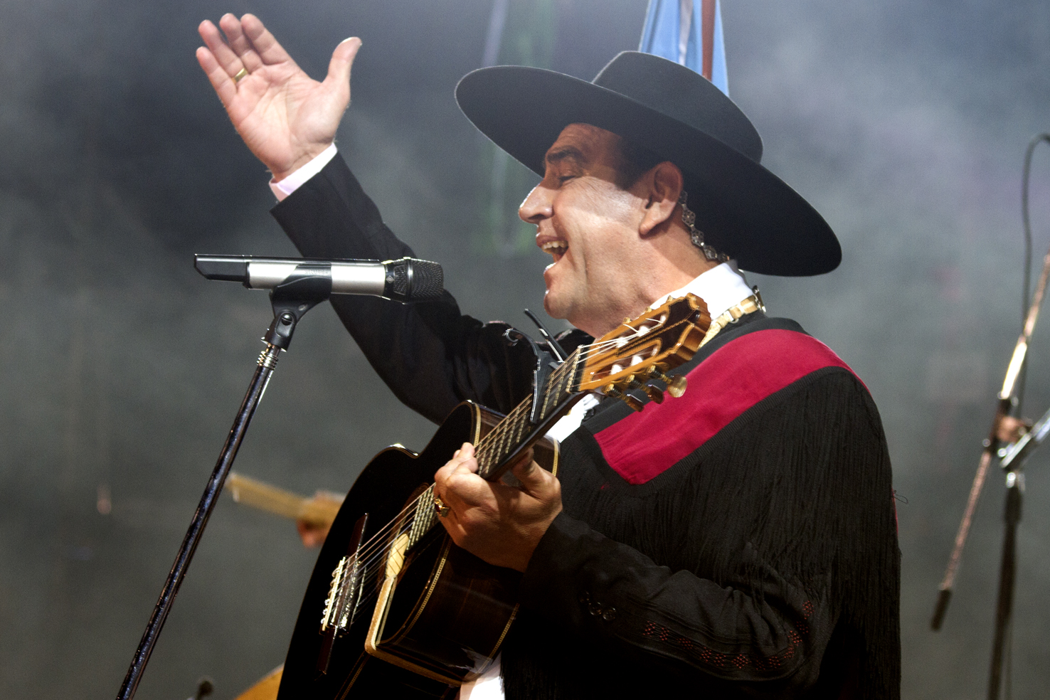 Buenos Aires, 22 de Mayo de 2015 - El Ministerio de Cultura de la Nación participa de los festejos por el nuevo aniversario de la Revolución de Mayo, que, bajo el lema “El mismo Sol, la misma Patria”, incluye cuatro días de propuestas artísticas en las calles, con la presentación de más de 70 solistas y grupos. Fotos: Ministerio de Cultura de la Nación